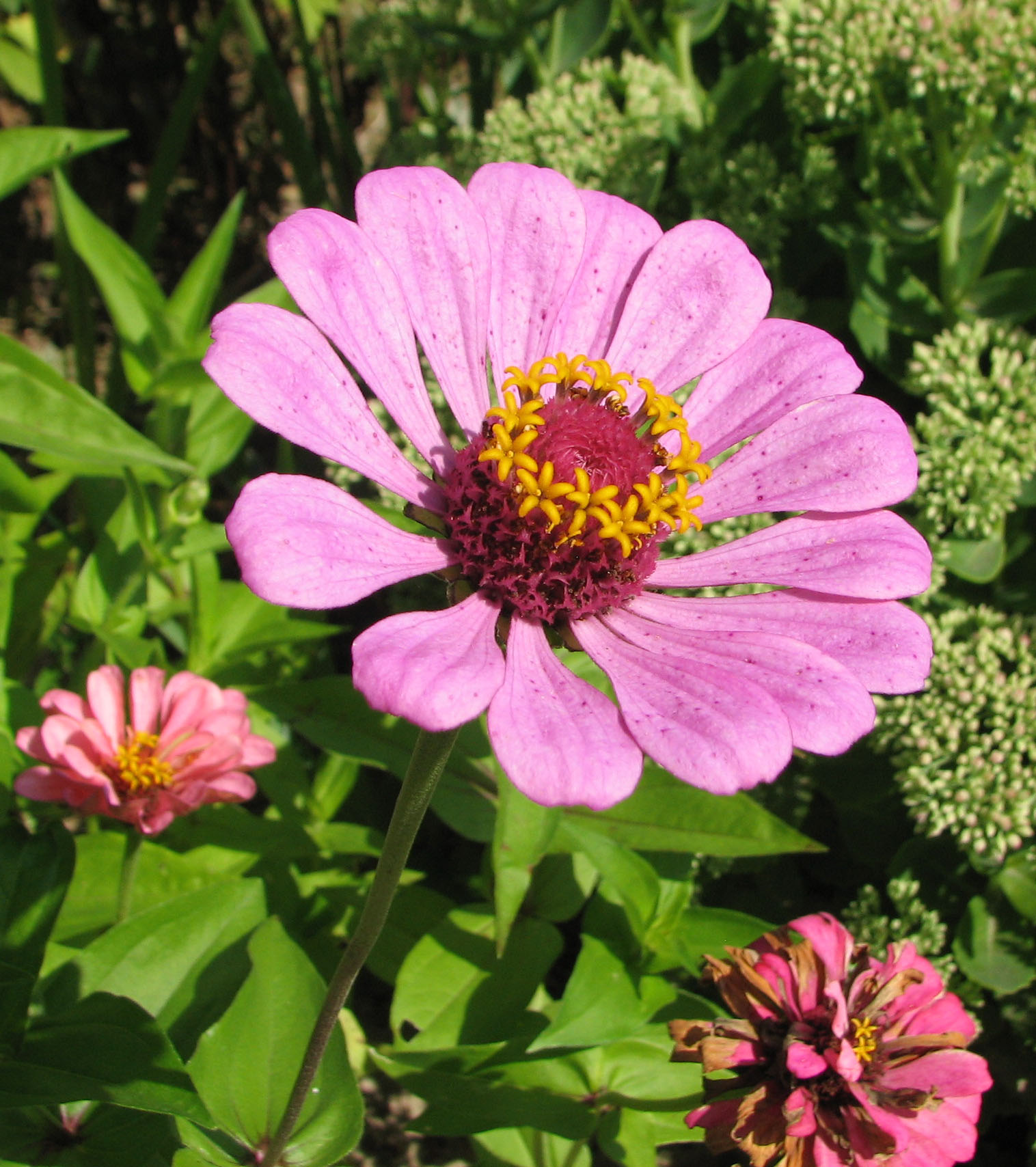 Zinnia elegans